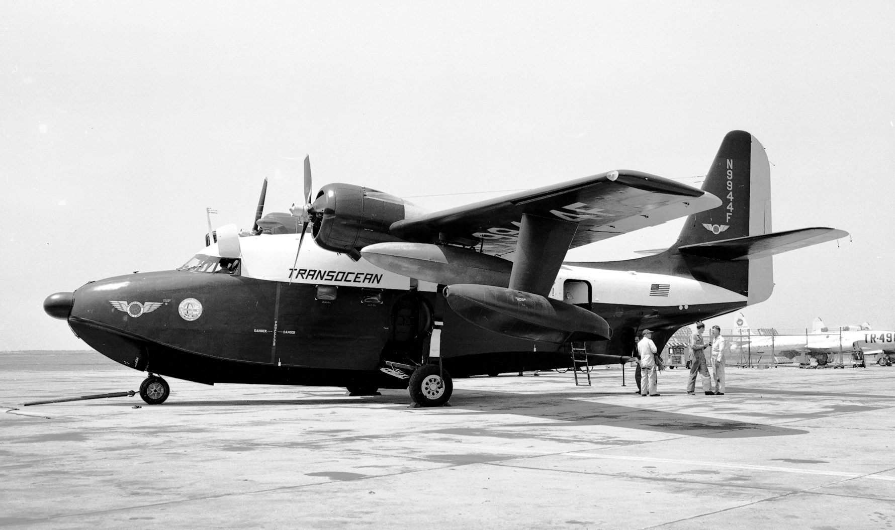 At Oakland in August 1954. One of four used by Transocean Air Lines in the Trust Territory.